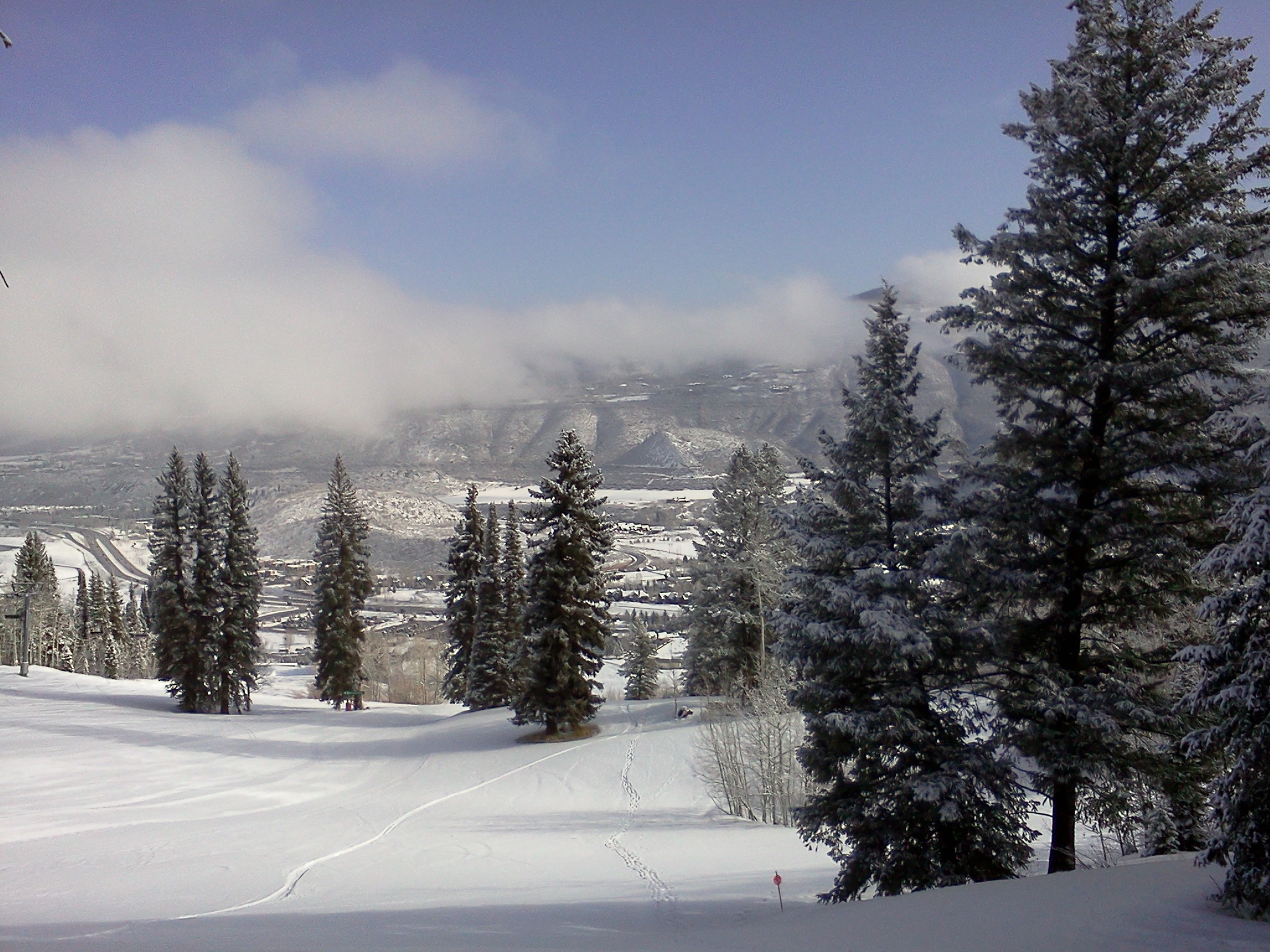 Fresh snow on Buttermilk Mountain